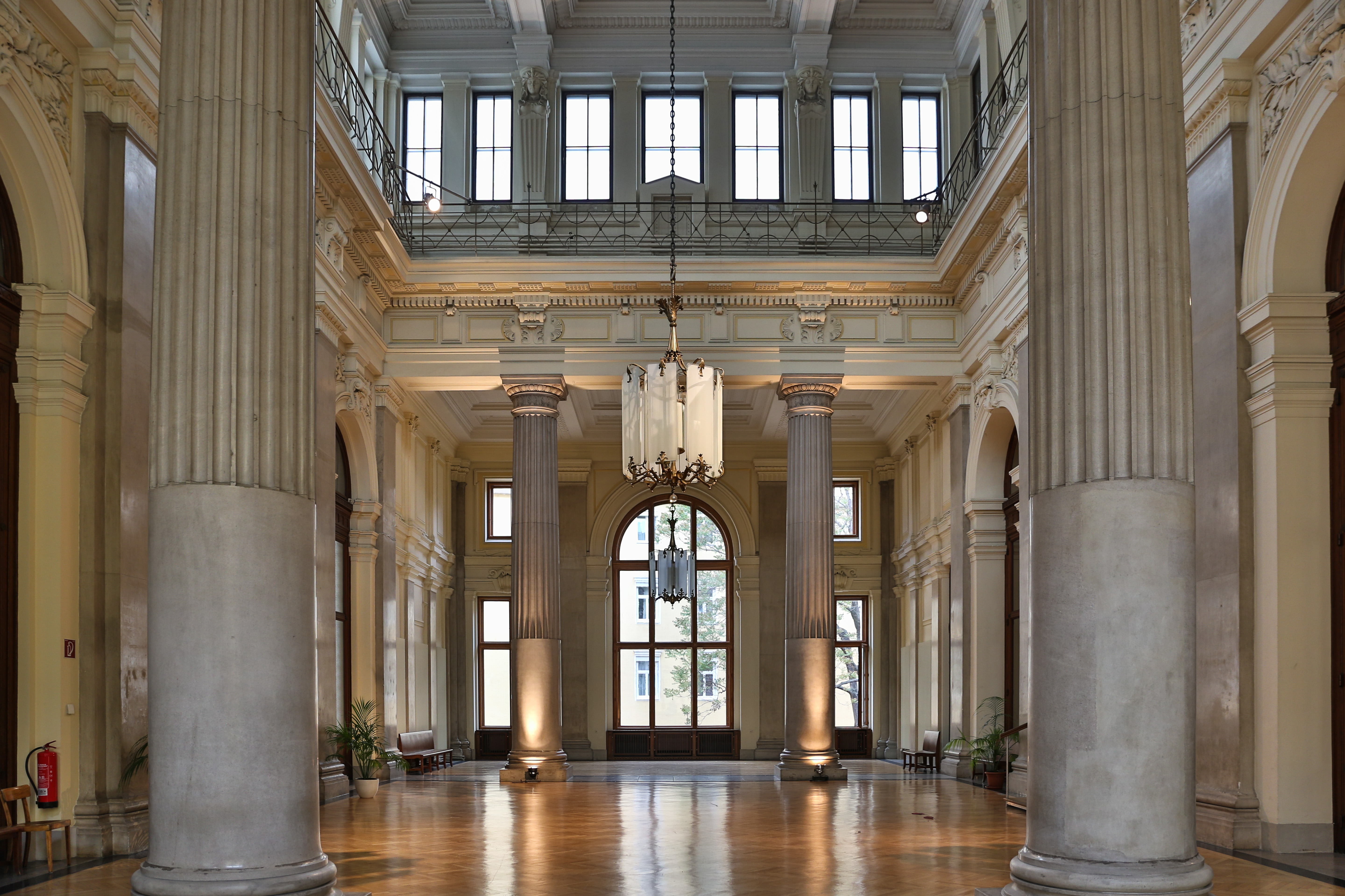 The larger hall of the former stock exchange for agricultural products (Theater Odeon) in Vienna / Austria / EU where the AGTT Screen Force Day was held on 10 May 2016th.